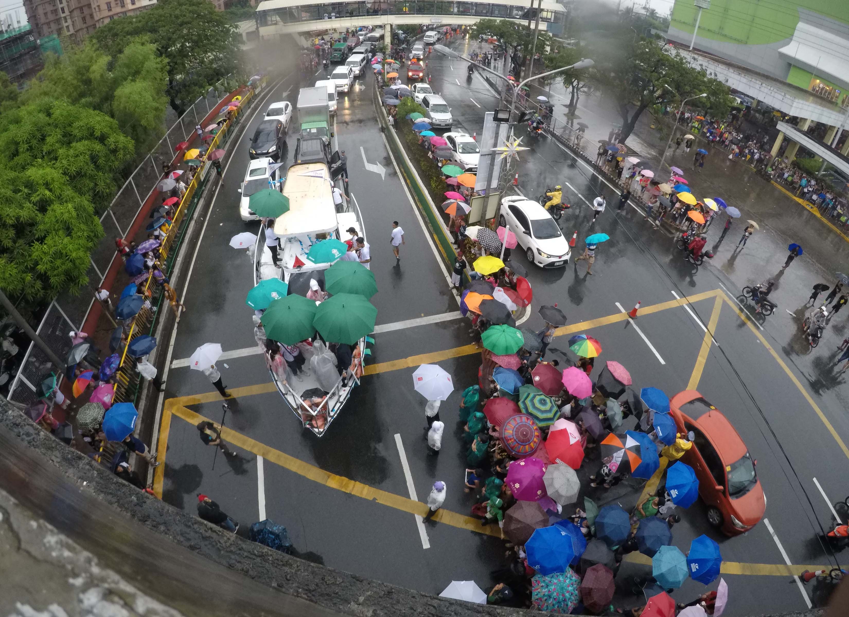 People flock to the Metro Manila Film Festival (2018) Parade of Stars in Manila despite a heavy downpour on Sunday (Dec. 23, 2018). A total of eight movie entries are competing in this year’s MMFF.